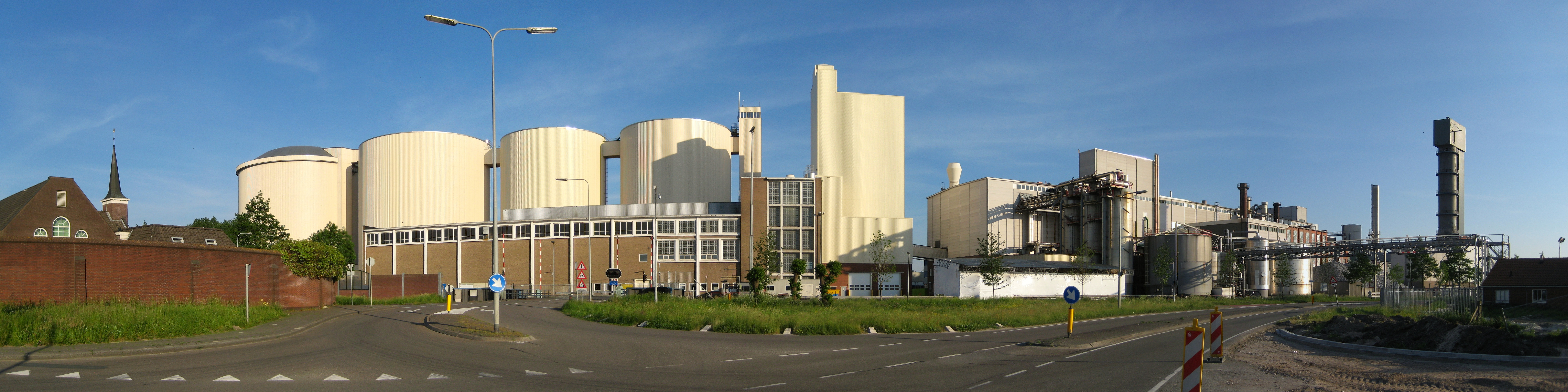 Sugar refinery of the Suiker Unie in Hoogkerk, Groningen, The Netherlands.